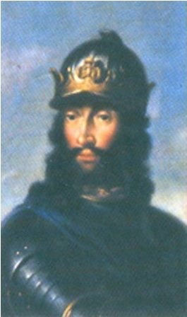 John I, King of Portugal